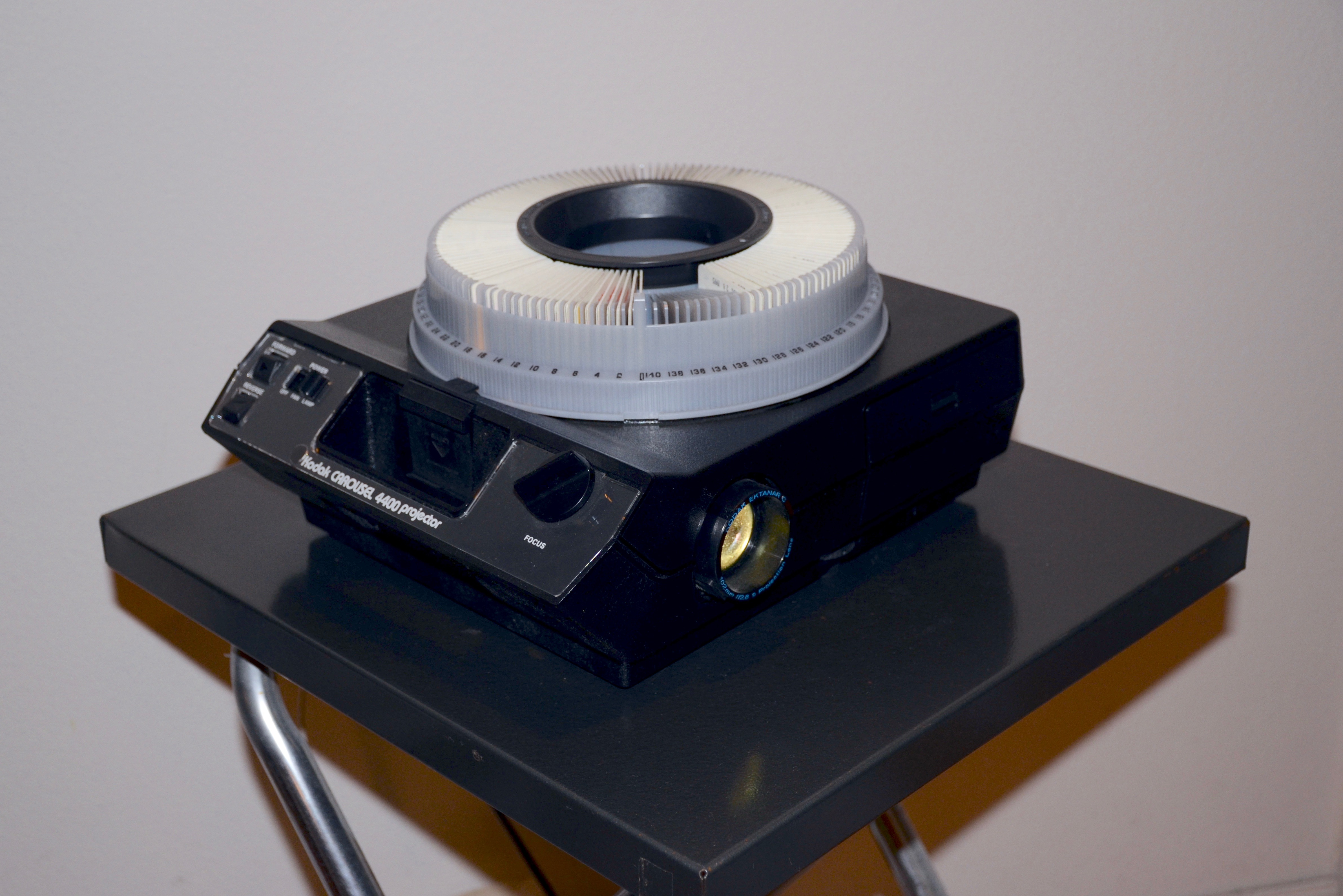 A Kodak Carousel 4400 slide projector with a 140-slide tray in use.